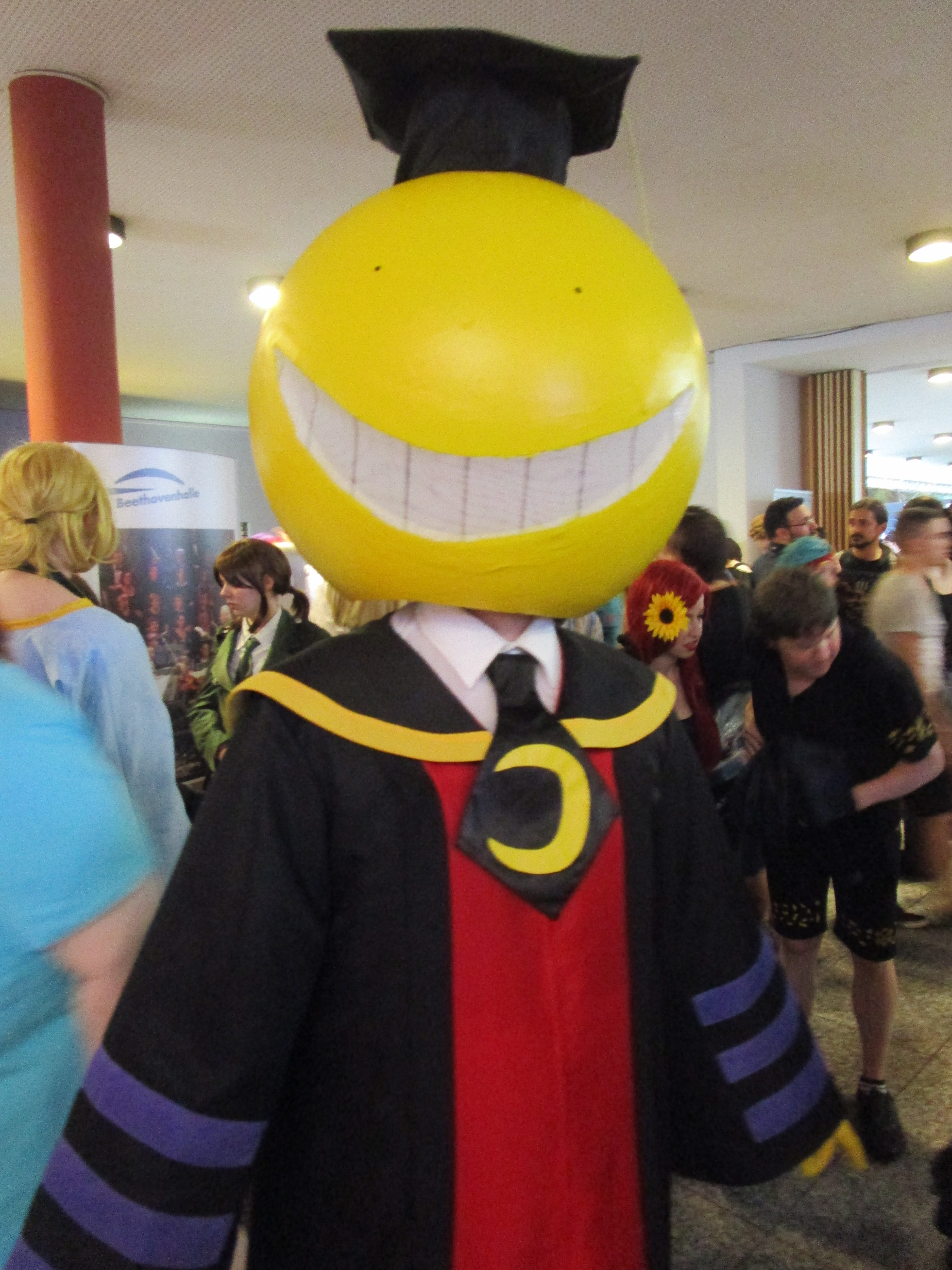 A cosplayer of Koro-sensei from the Assassination Classroom manga/anime.